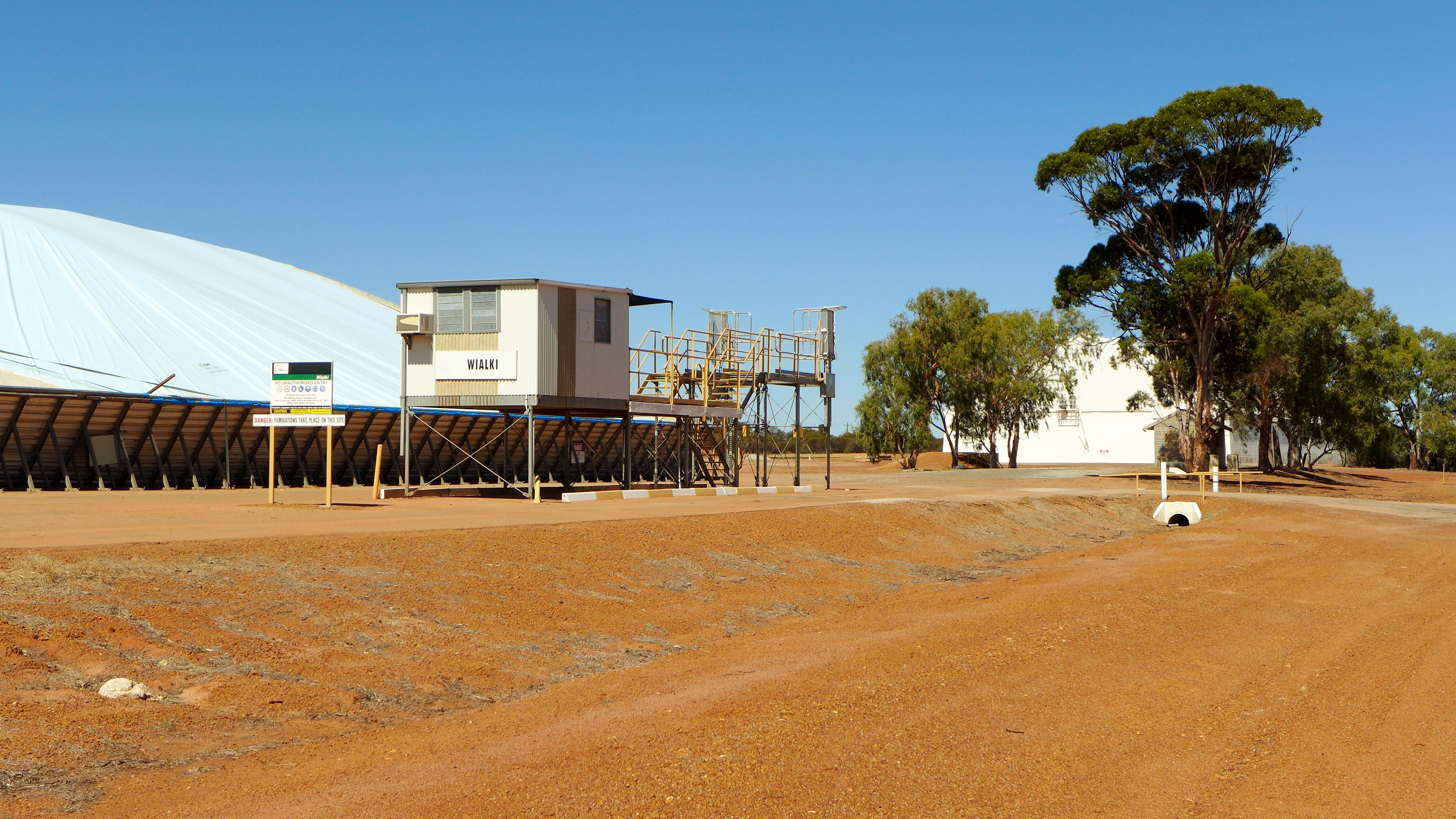 View of the CBH grain receival point at Wialki, Western Australia.